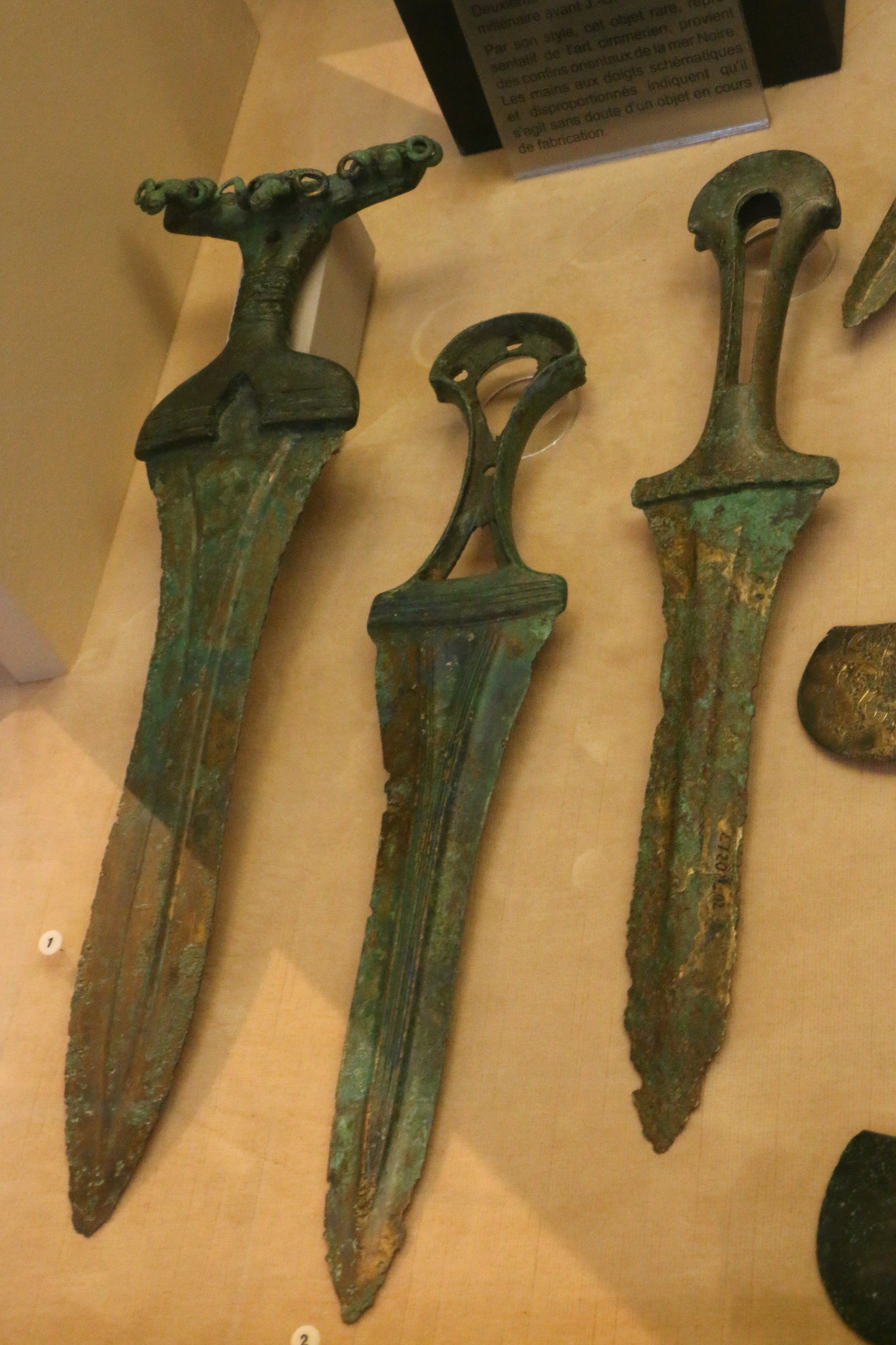 From the National Archaeological Museum of Saint-Germain-en-Laye near Paris France - Koban Culture's Daggers